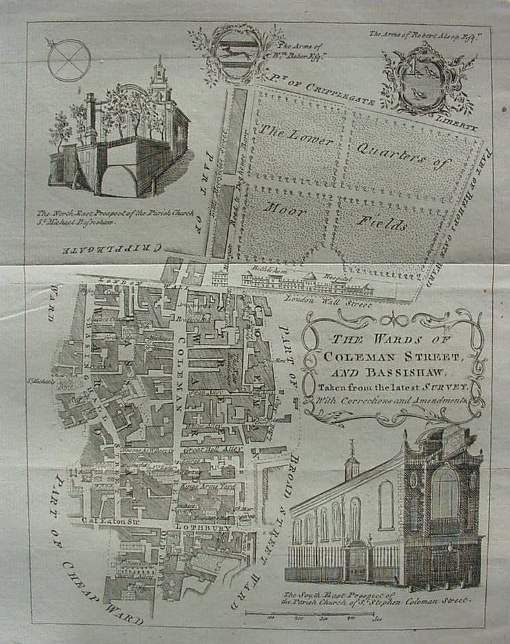 Coleman Street and Bassinshaw Wards. 1754 Benjamin Cole source